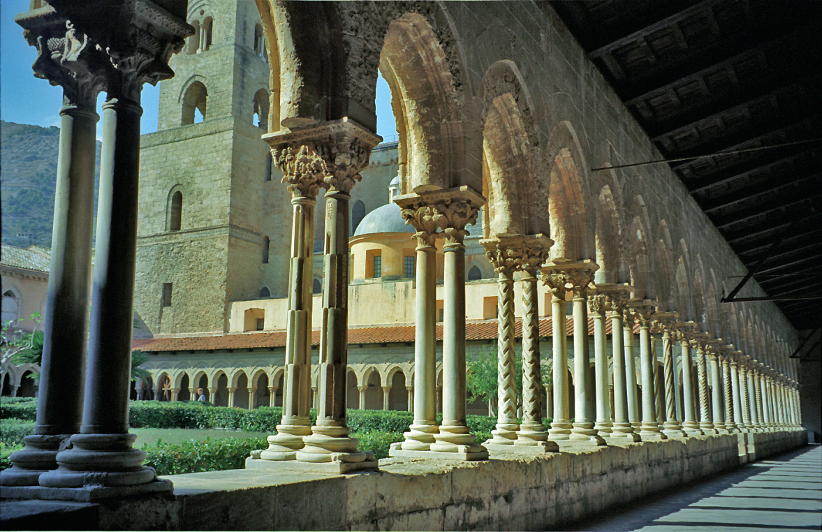 Sicily, The Cathedral Monreale